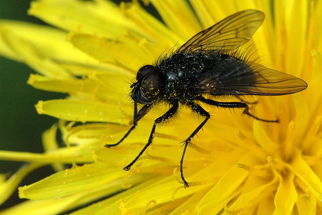 Picture taken in Commanster, Belgian High Ardennes . Species: Phaonia atriceps